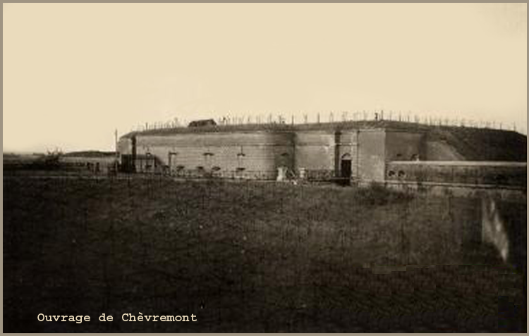 The Fort of Chèvremont in France (Fortresse des Belfort)